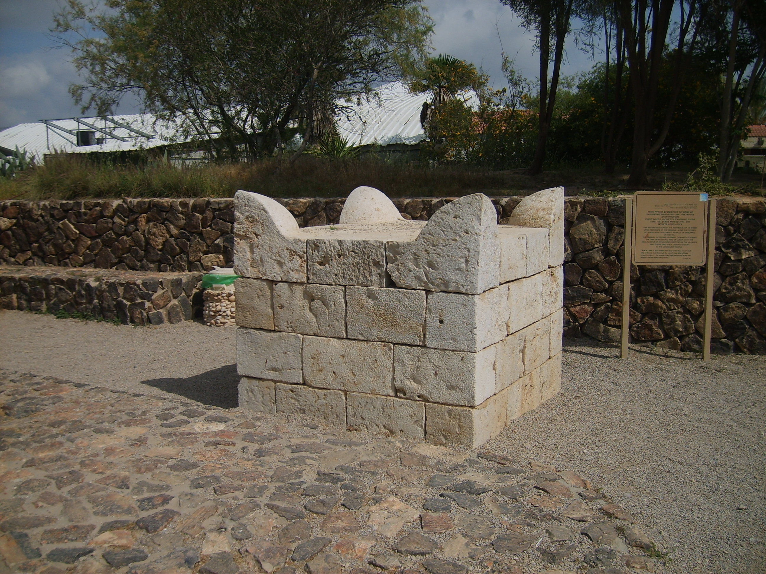 Reconstruction of an ancient Israelite horned altar (based upon the remnants of the original one) as it was used to sacrifice animals. The original altar was probably dismantled during the time of Hezekiah, the King of Judah, with the centralization of the Israelite cult in the temple of Jerusalem. Location: Tel Be'er Sheva.